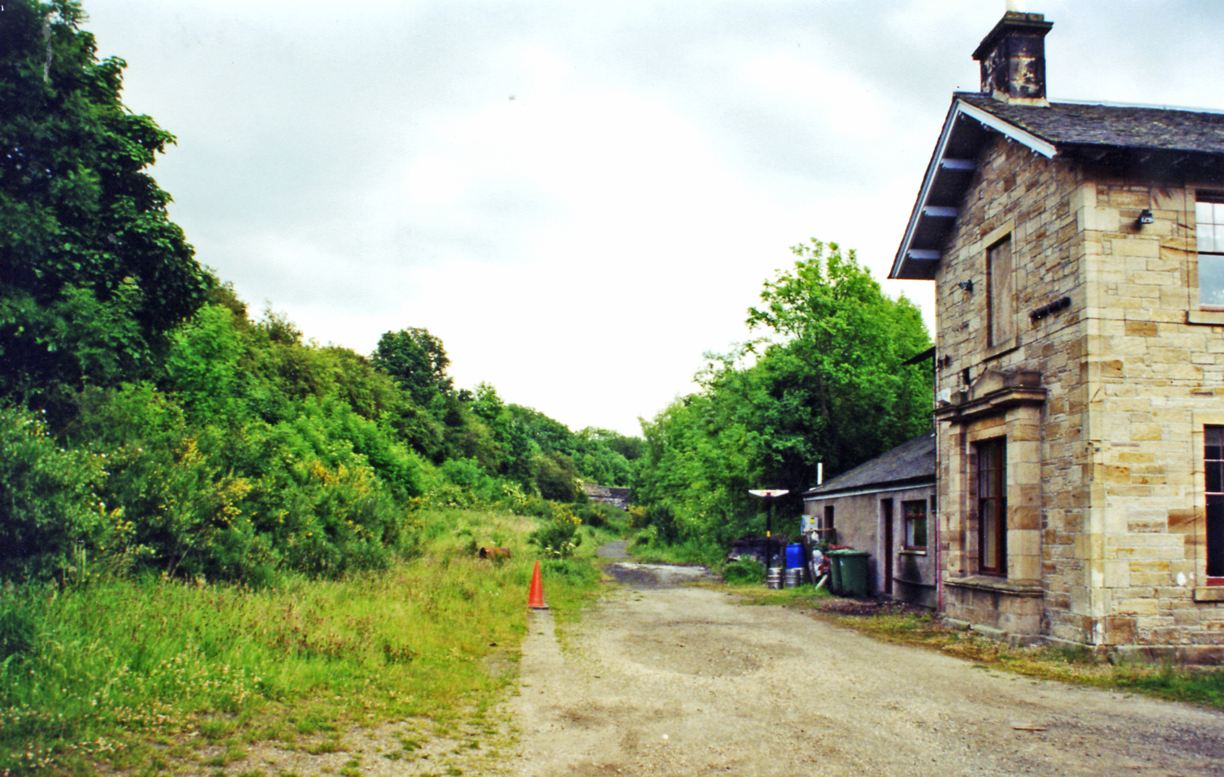 Site of Gorebridge station, 2000. View SE, towards Galashiels, Hawick and Carlisle: ex-NBR Edinburgh - Carlisle main line (Waverley Route). The station and the whole route were closed 6/1/69, but are scheduled for restoration by 2015 as the Borders Railway from Edinburgh to a temporary (?) terminus just south of Galashiels at Tweedbank